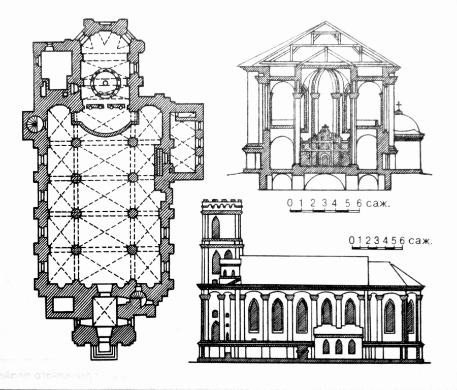 Church_of_Vitaut_Hrodna Belarus